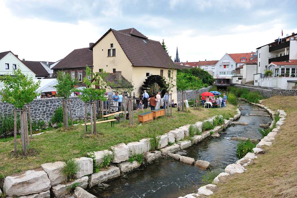 Mill in Mühlheim am Main